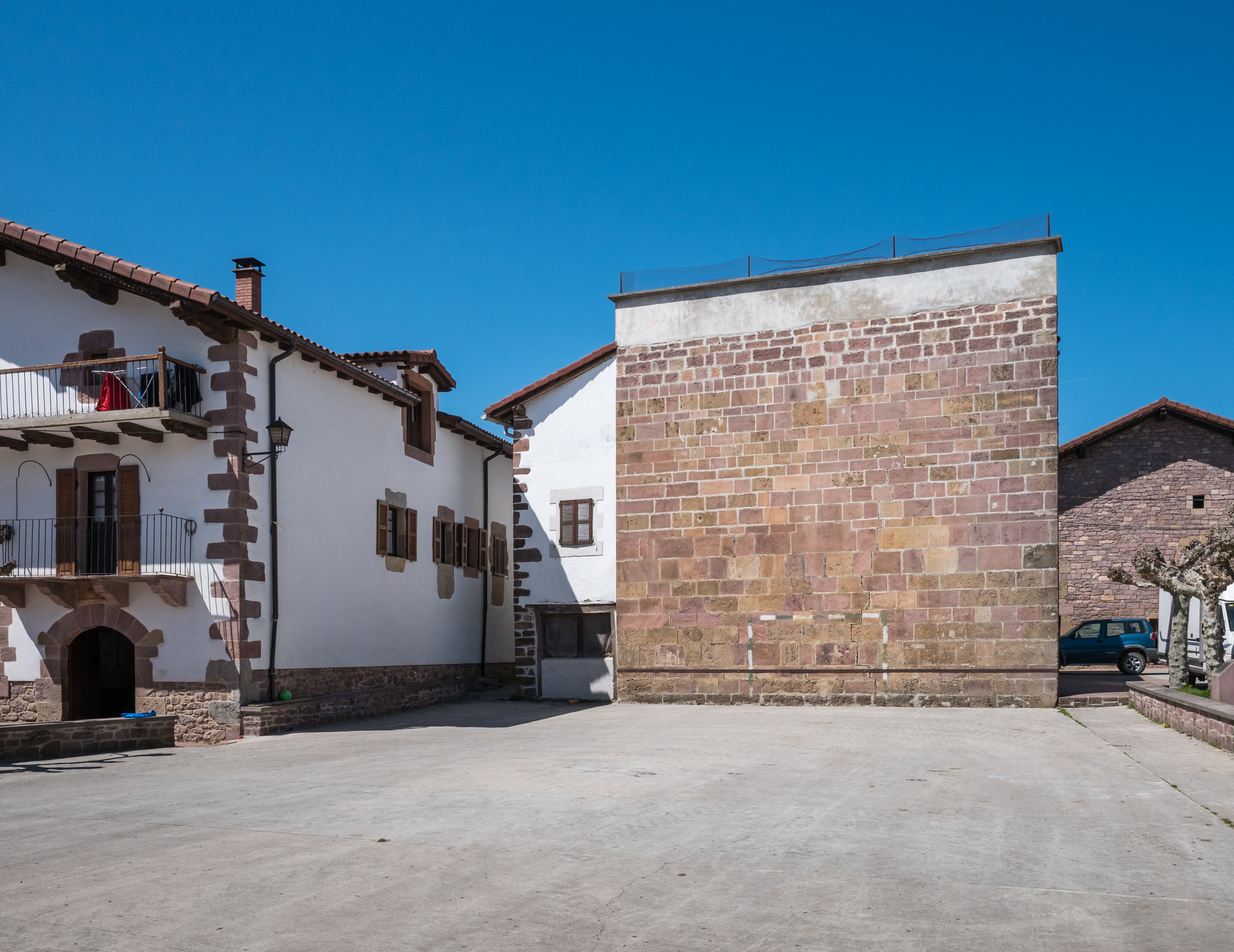 Pelota court of Lanz. Navarre, Spain